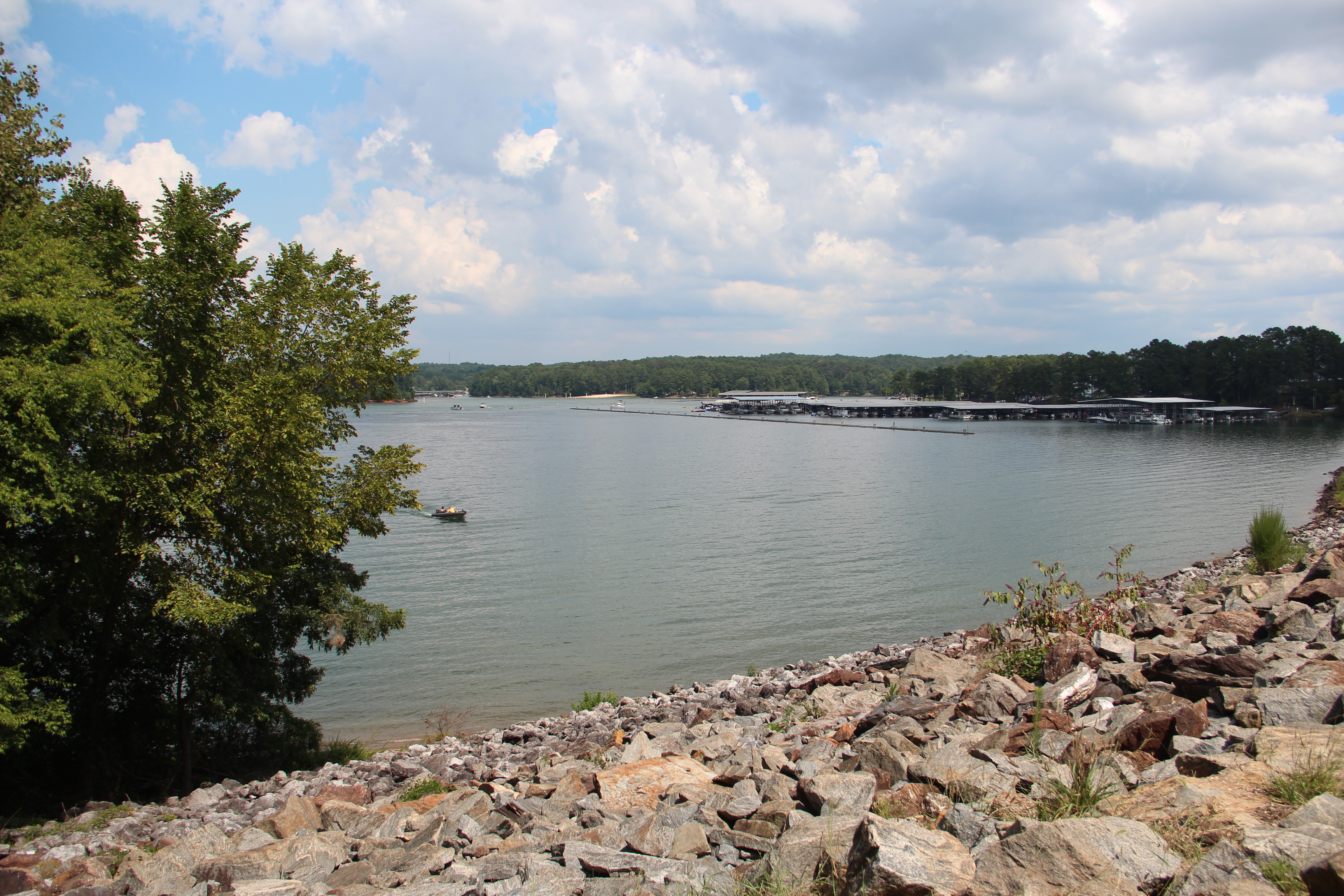 Lake Allatoona from Allatoona Pass Battlefield